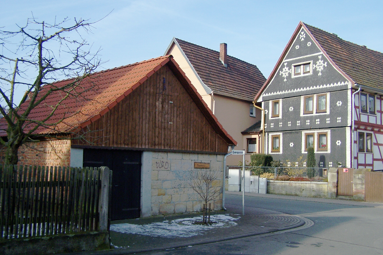 A village bakery house in Immelborn.